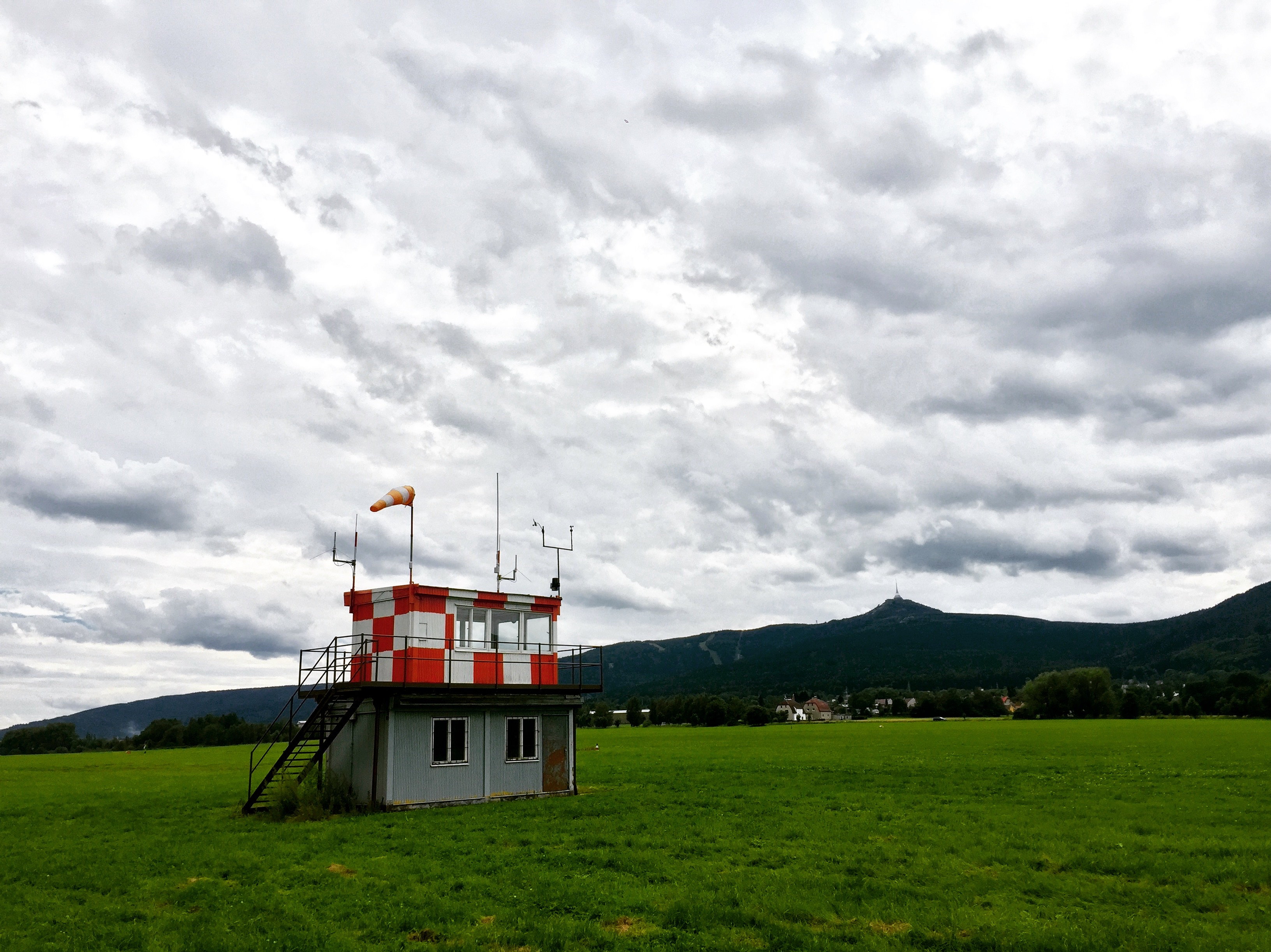 Liberec Airport